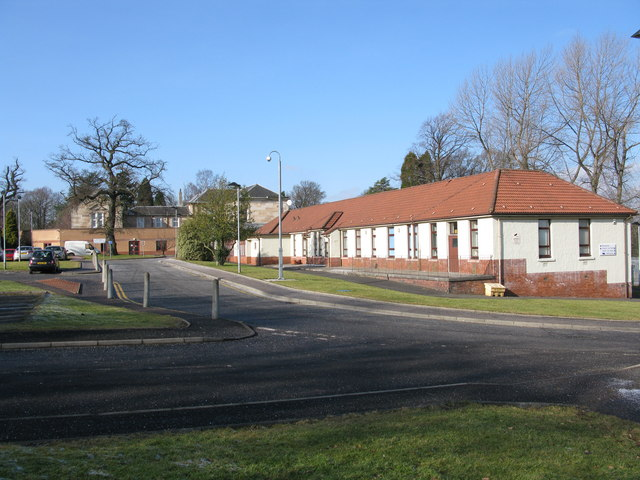 Udston Hospital On Farm Road, Burnbank, Udston Hospital offers long-term care for elderly patients and a rehabilitation unit. A range of other services including Physiotherapy, Occupational Therapy, Dietetics, Podiatry and Speech & Language Therapy is provided from the hospital on an outpatient basis.